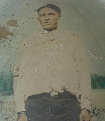 Caleb Starr Bean, Chief of the Mount Tabor Indian Community 1881-1902 Kilgore, Texas